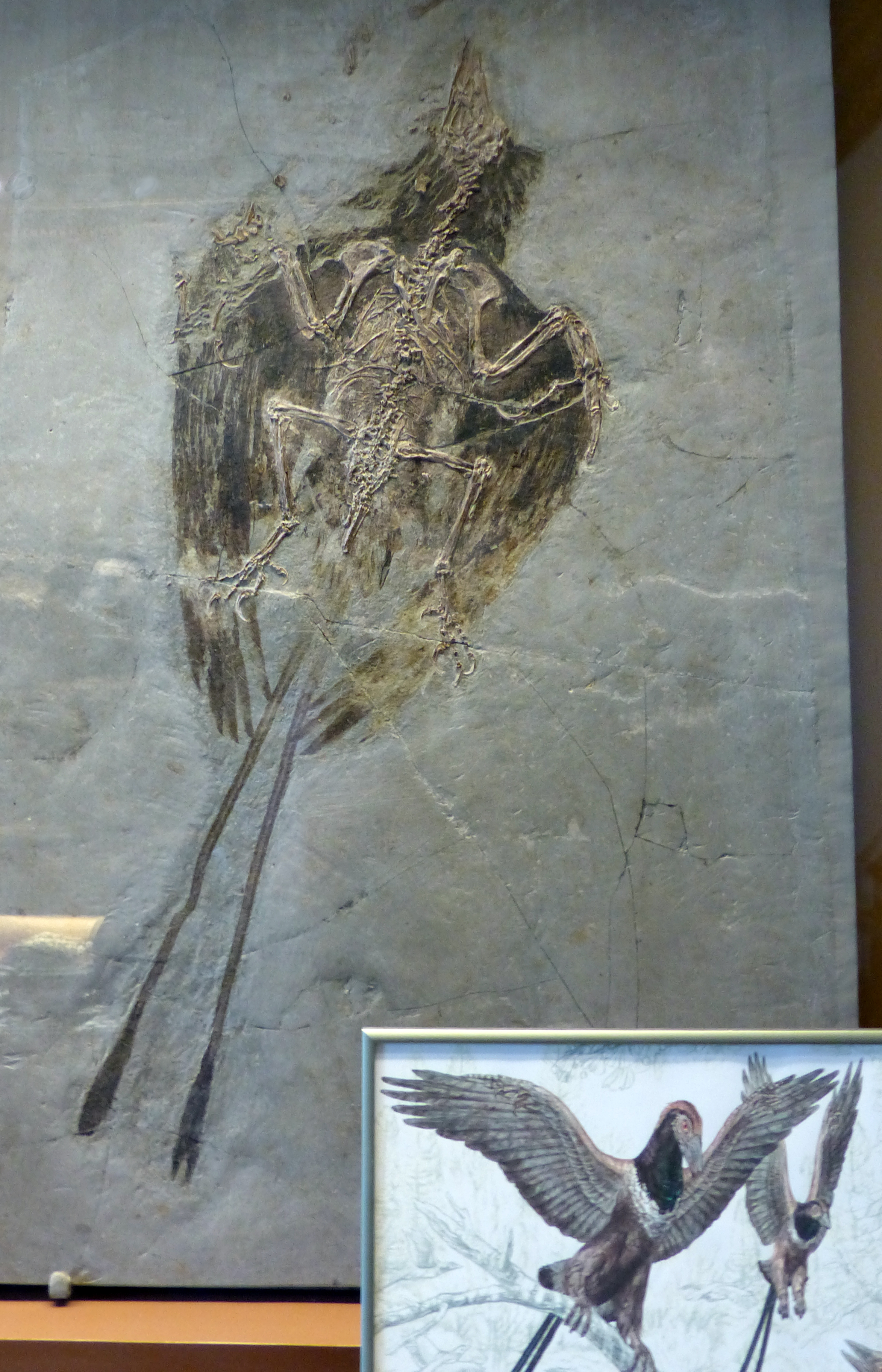 Confuciusornis sanctus - Chinese bird, Natural History Museum Vienna